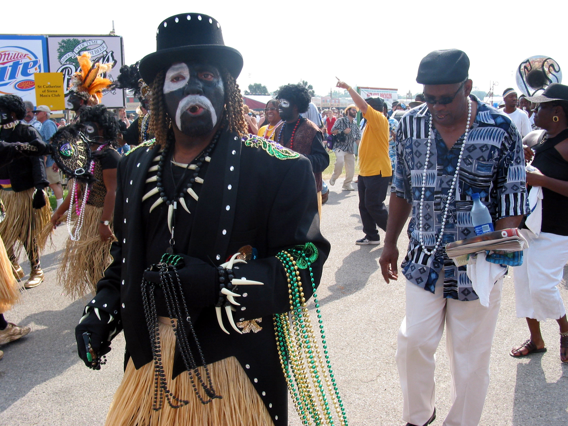 Zulu club paraders at 2003 New Orleans Jazz & Heritage Festival